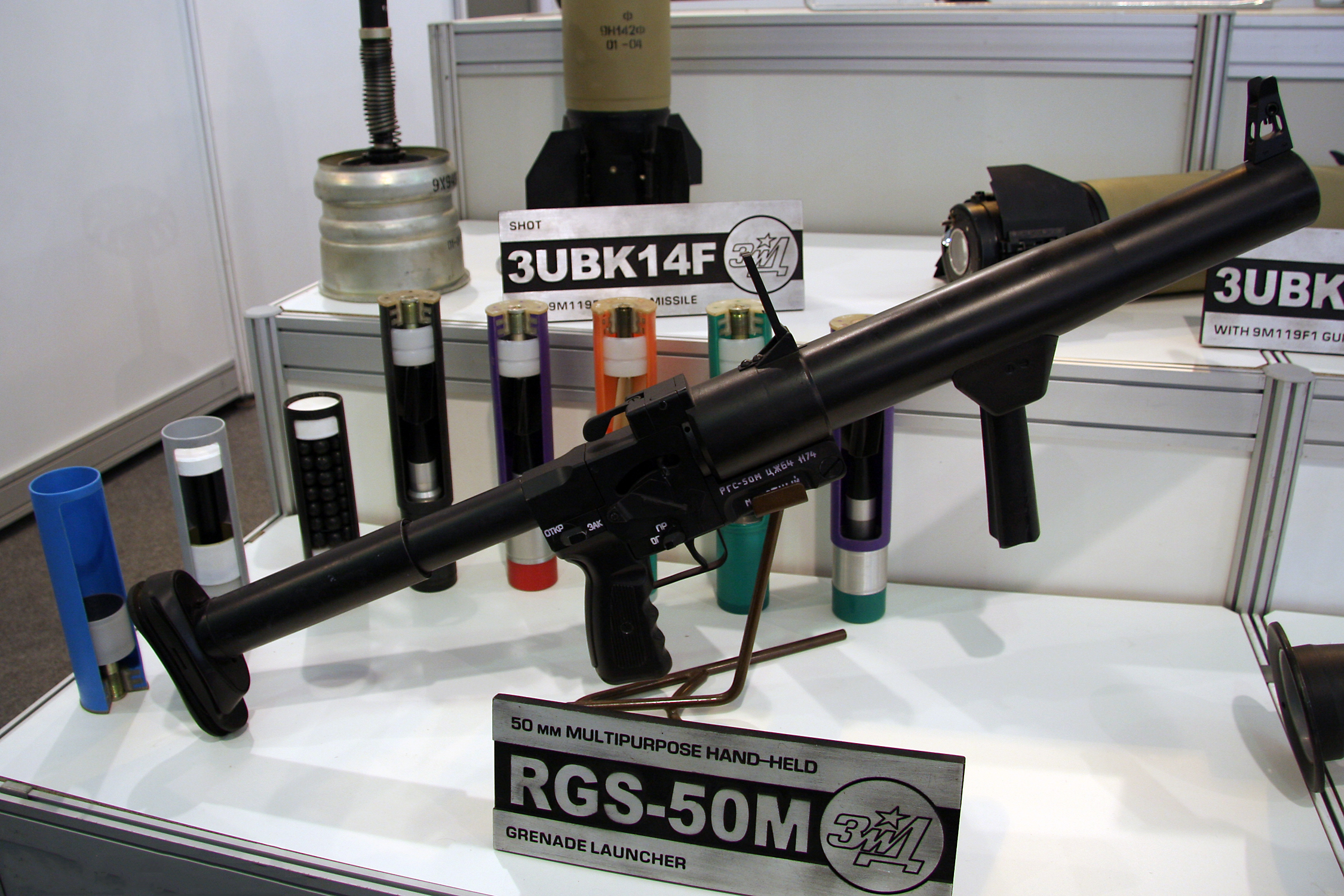 Special grenade launching system RGS-50M - Engineering technologies-2010